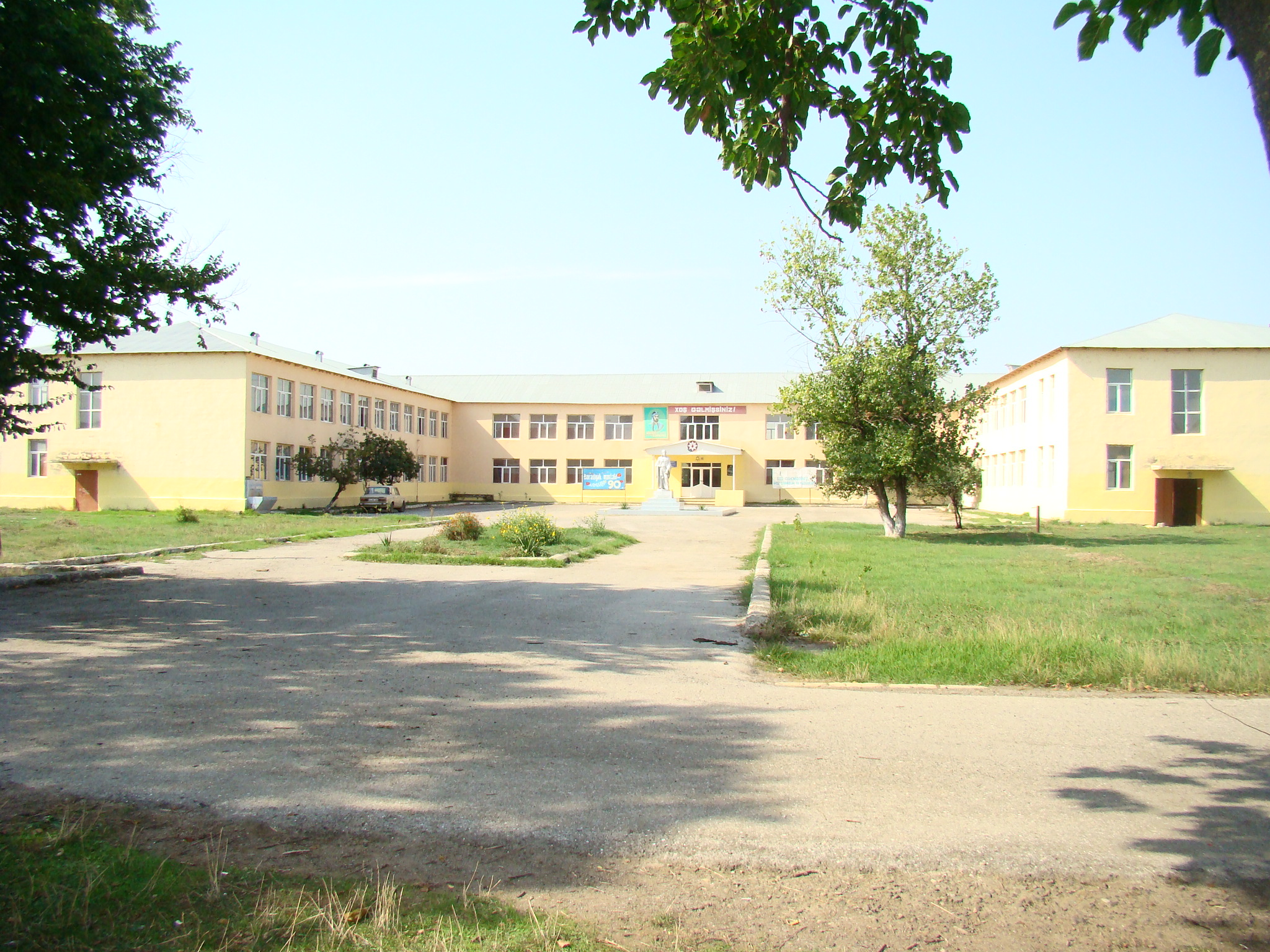 Secondary school № 1 Boradigah (Azerbaijan)